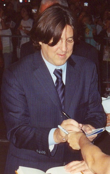 Cameron Crowe at the 2005 Toronto International Film Festival promoting Elizabethtown.Elizabethtown_014